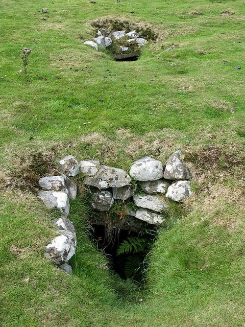 Souterrain, Canna Evidence of later prehistoric settlement on Canna. It is not known if it was used for storage or for burial purposes.